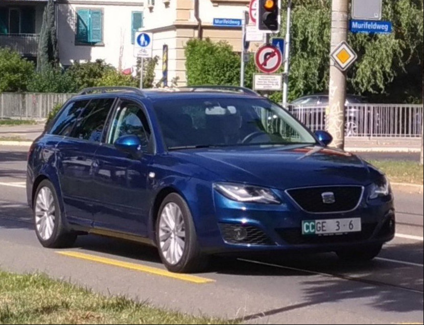 Seat Exeo Switzerland Diplomatic plate (Spain)